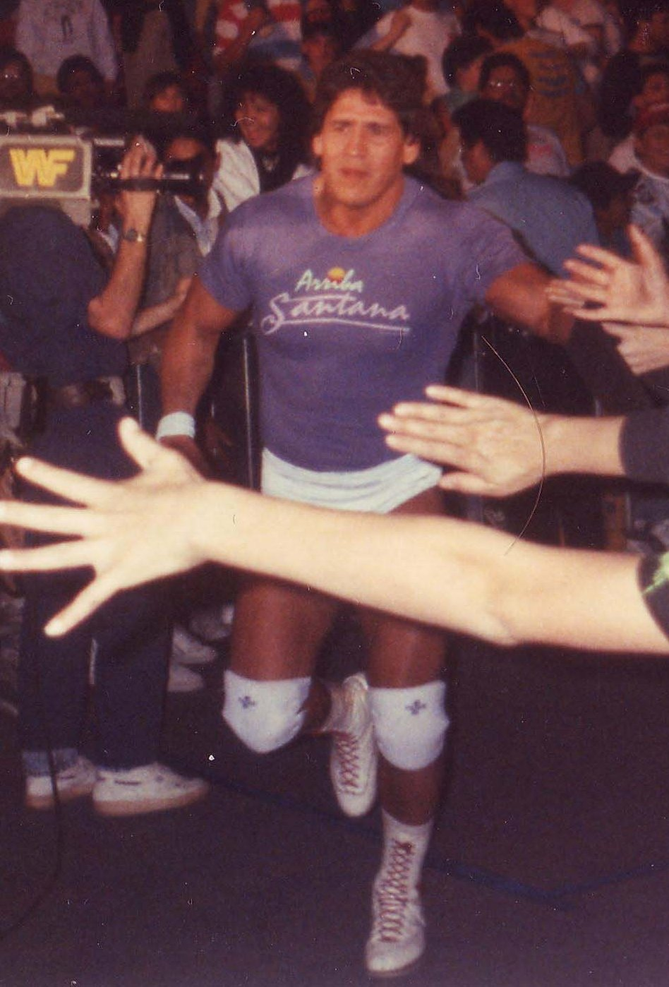 Professional wrestler Tito Santana making his way to the ring